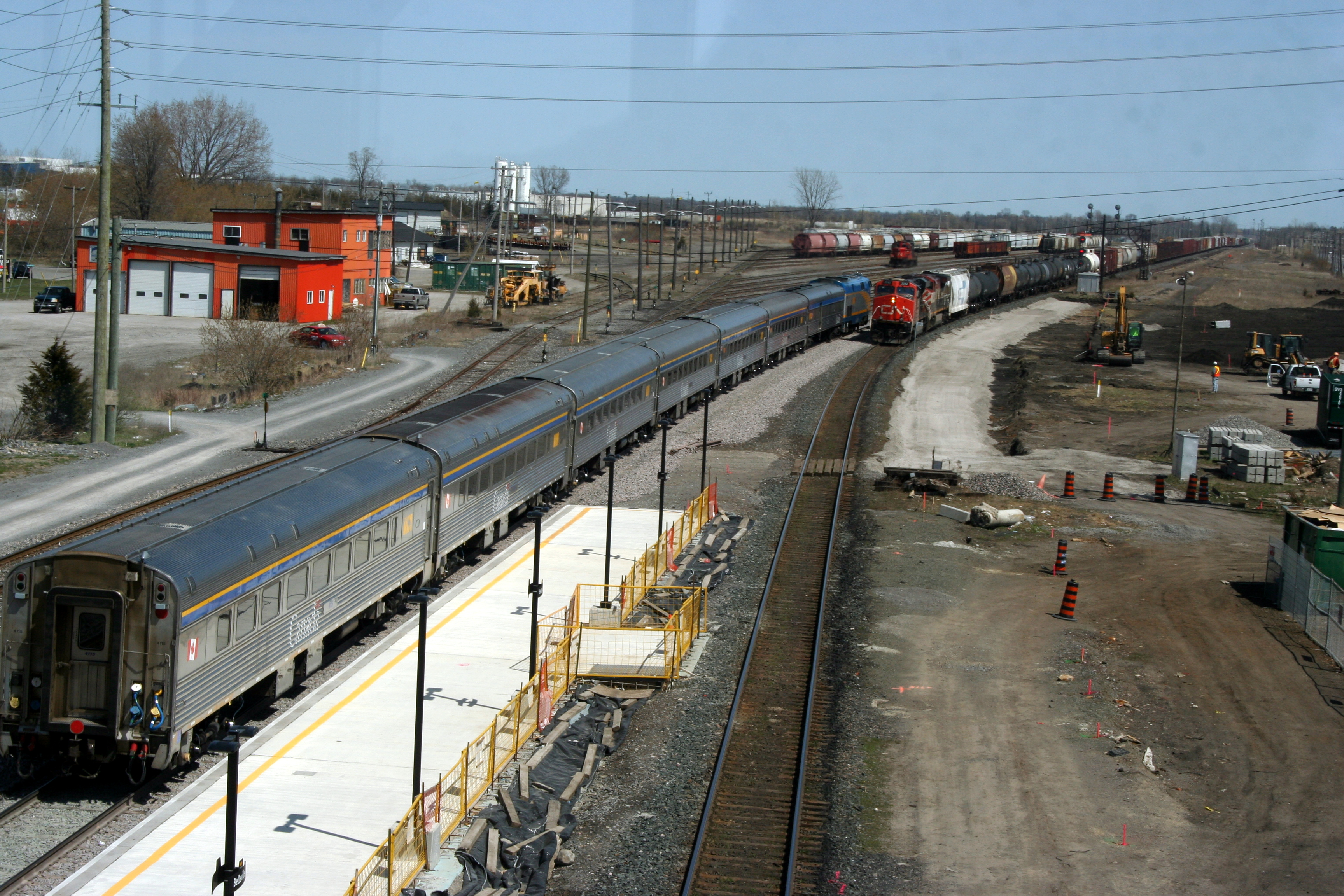 Train 60 departs Belleville for Ottawa and Montréal passing incoming CN freight